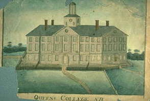 Old Drawing of Old Queens, Rutgers University